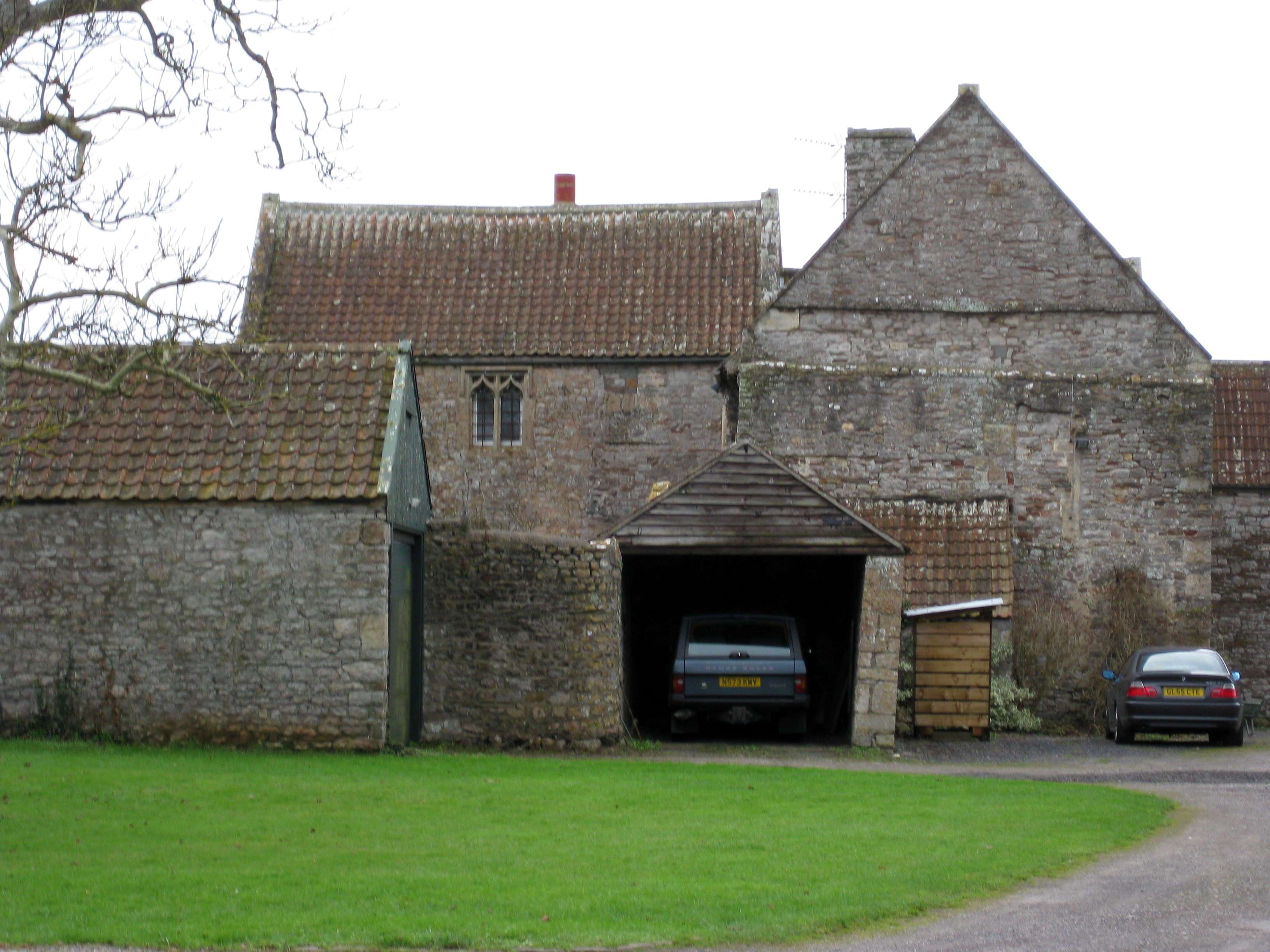 Tickenham Court, an historic building in Tickenham